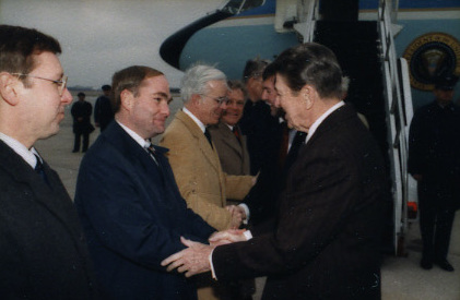 President Reagan on Air Force One (3-5) President Reagan, John Hiler, Robert Orr, John Mutz, Richard Shank, Joe Zakas, Joseph Kernan, Edward Malloy, Andrew McKenna (Not in all photos) (6-16)